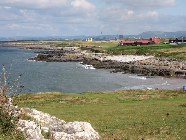 Royal Porthcawl Golf Club The royal Porthcal golf Club viewed from Locks common, with Rest Bay in the foreground and Sker House and Port Talbot steel works in the distance.